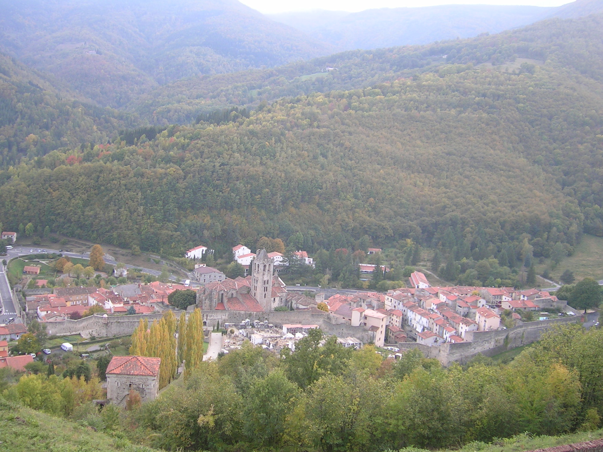 Prats de Molló, North Catalonia, France